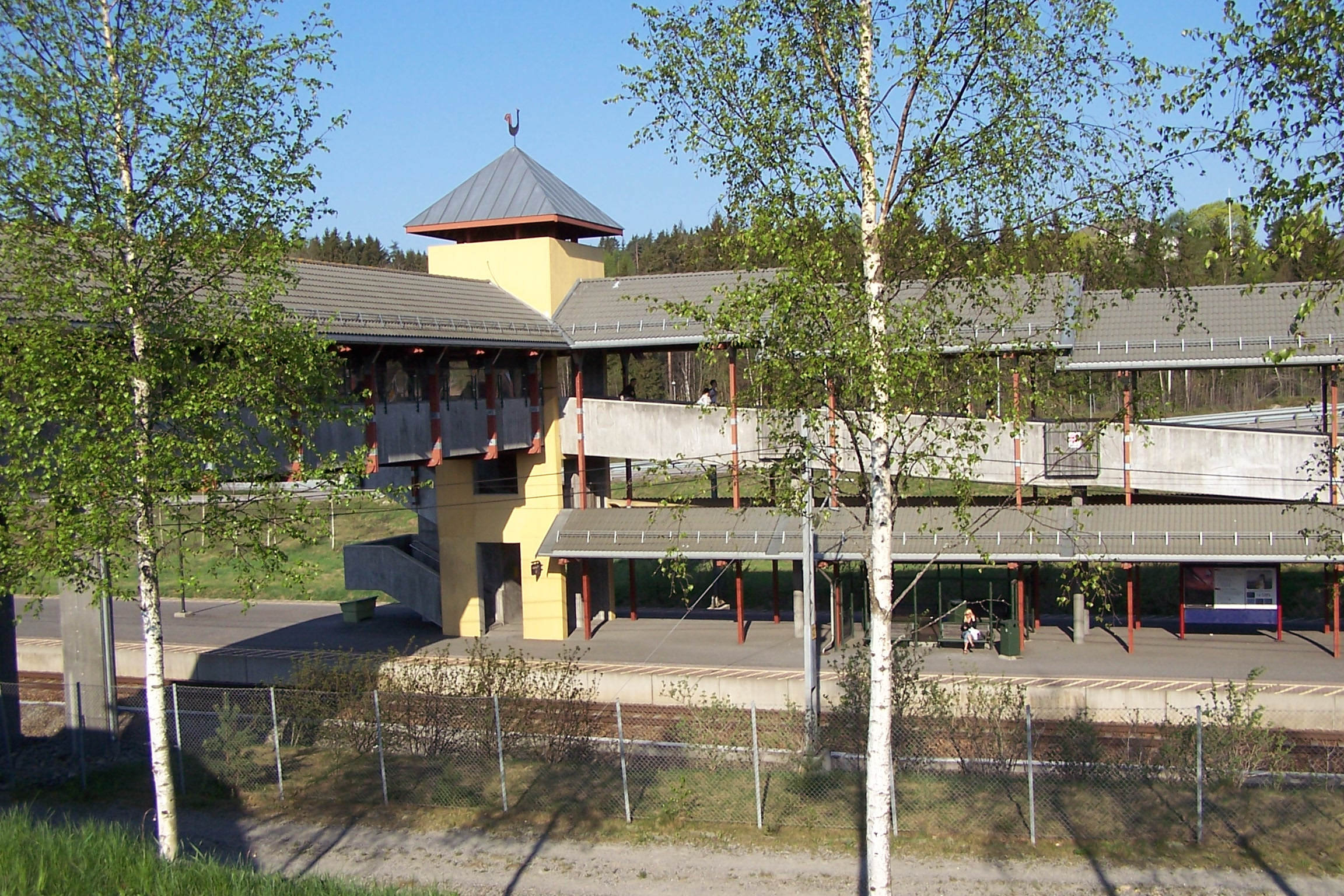 Sonsveien station outside Son in Akershus, Norway